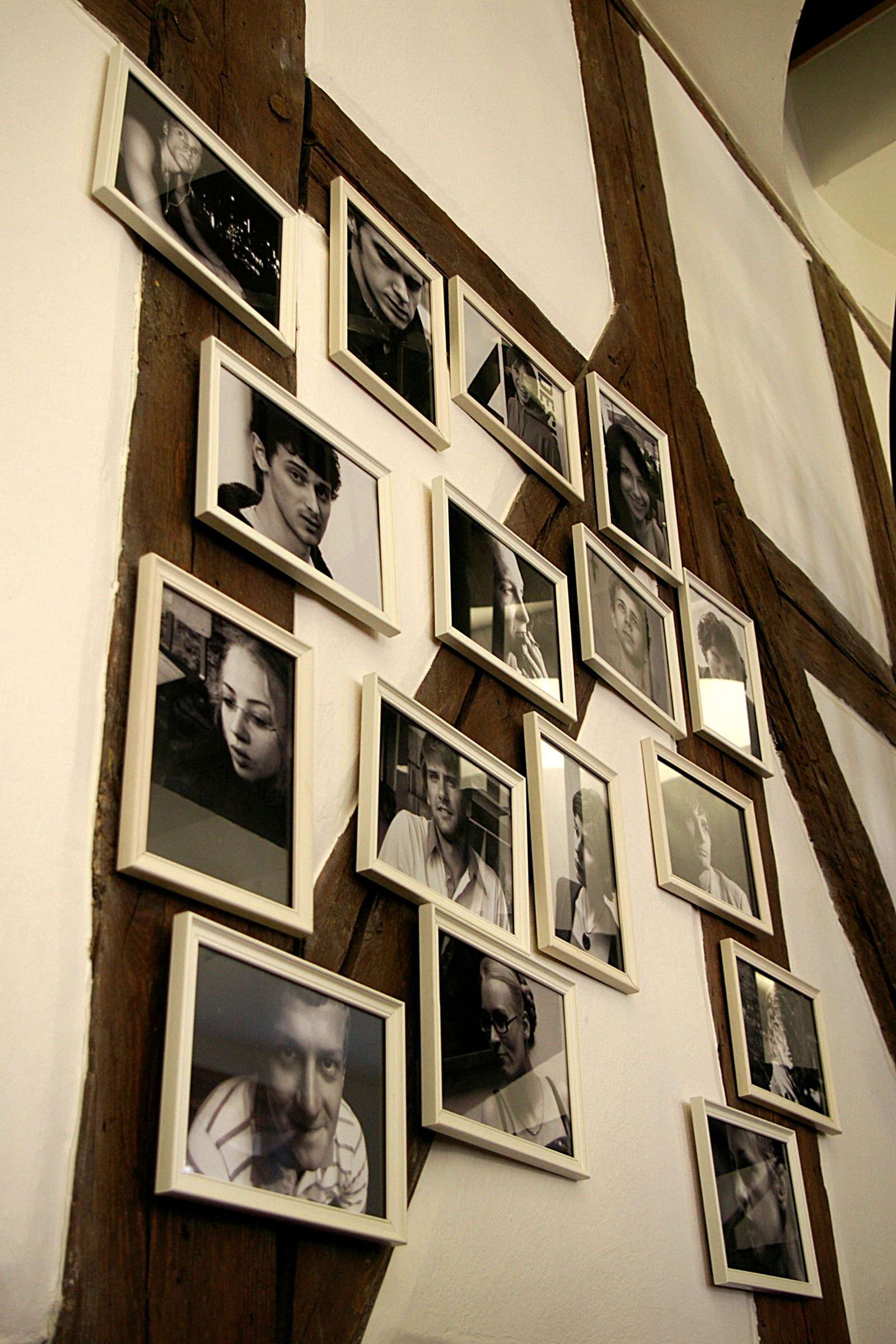 Another group of fresh actors finished their studies in Drama School of Estonian Academy of Music and Theatre in summer 2008.